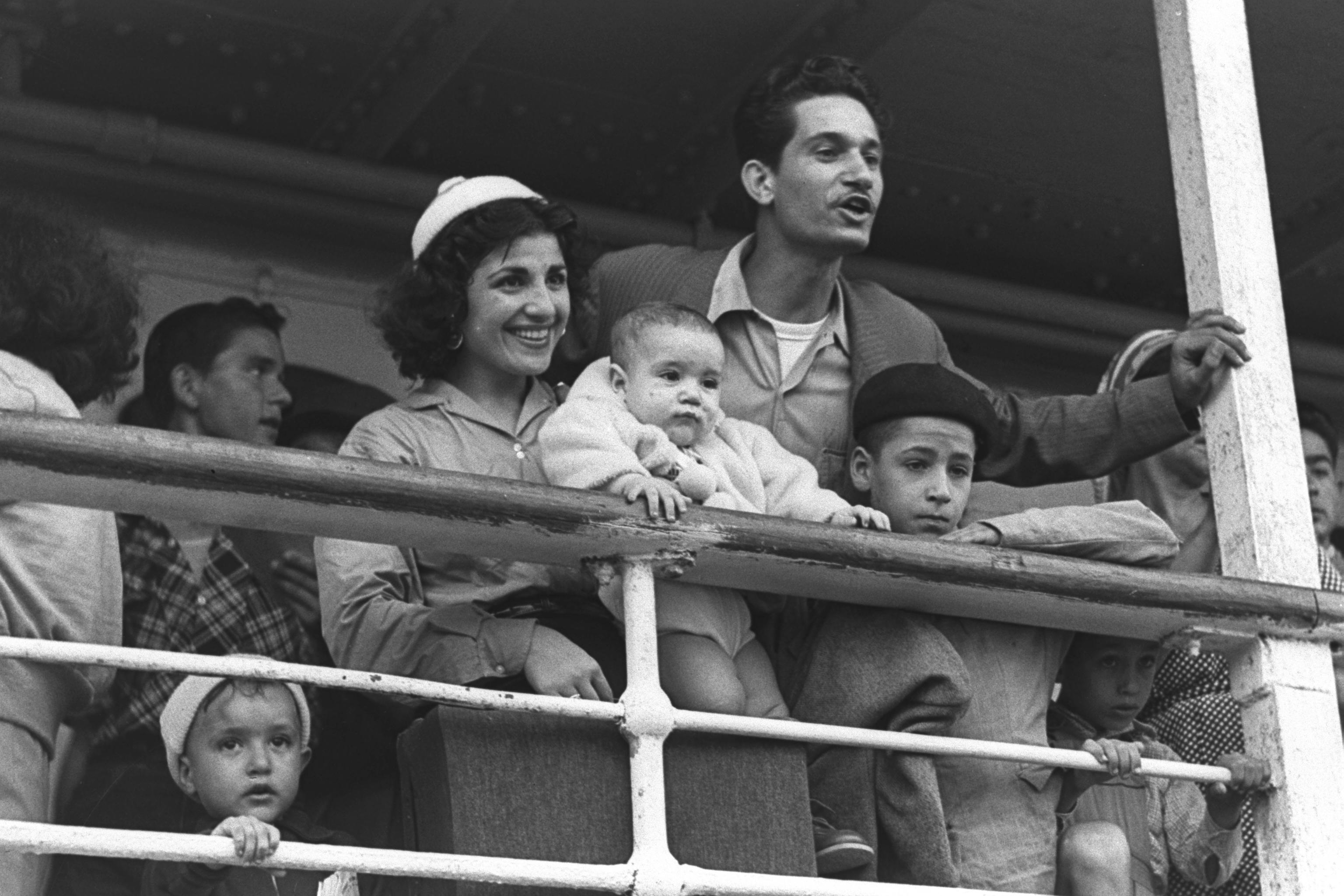 Newcomers on board ship see friends from Morocco at Haifa Port. Moroccan immigrants.